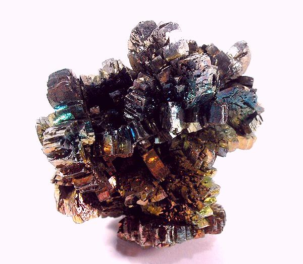 Marcasite Locality: Baxter Springs, Picher Field, Tri-State District, Cherokee County, Kansas, USA (Locality at ) A truly breathtaking roseate spray of "cockscomb marcasite" from teh Old TriState District. This one has the most incredible iridescence and multicolored patina I have ever seen on a marcasite. It is a complete rosette, too,and displays magnificently. For an oft-dismissed species like marcasite, this is a real stunner. 6.9 x 5.9 x 3.2 cm